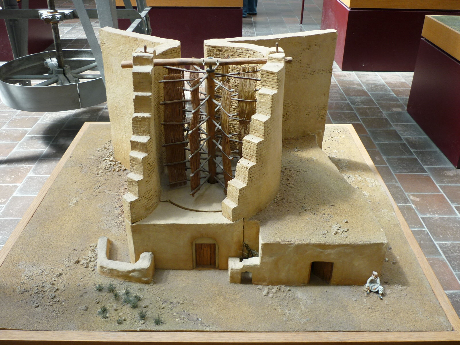 Model of a "Persian Windmill" in the German Museum, Munich